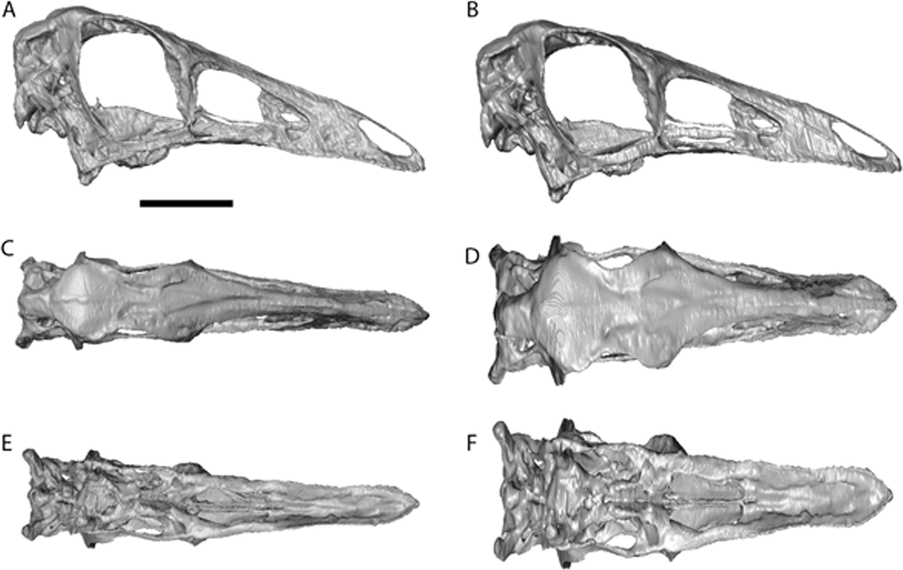 Ornithomimus edmontonicus reconstruction (RTMP 1995.110.0001) showing the effect of the mediolateral expansion after separating the taphonomically deformed bones of the palate. (A), (C), (E), original skull, (B), (D), (F), retrodeformed skulls. (A), (B), right lateral; (C), (D) dorsal; (E), (F), ventral views. Scale bar = 5 cm. See Videos S5 and S6 showing video of the skull before and after retrodeformation.